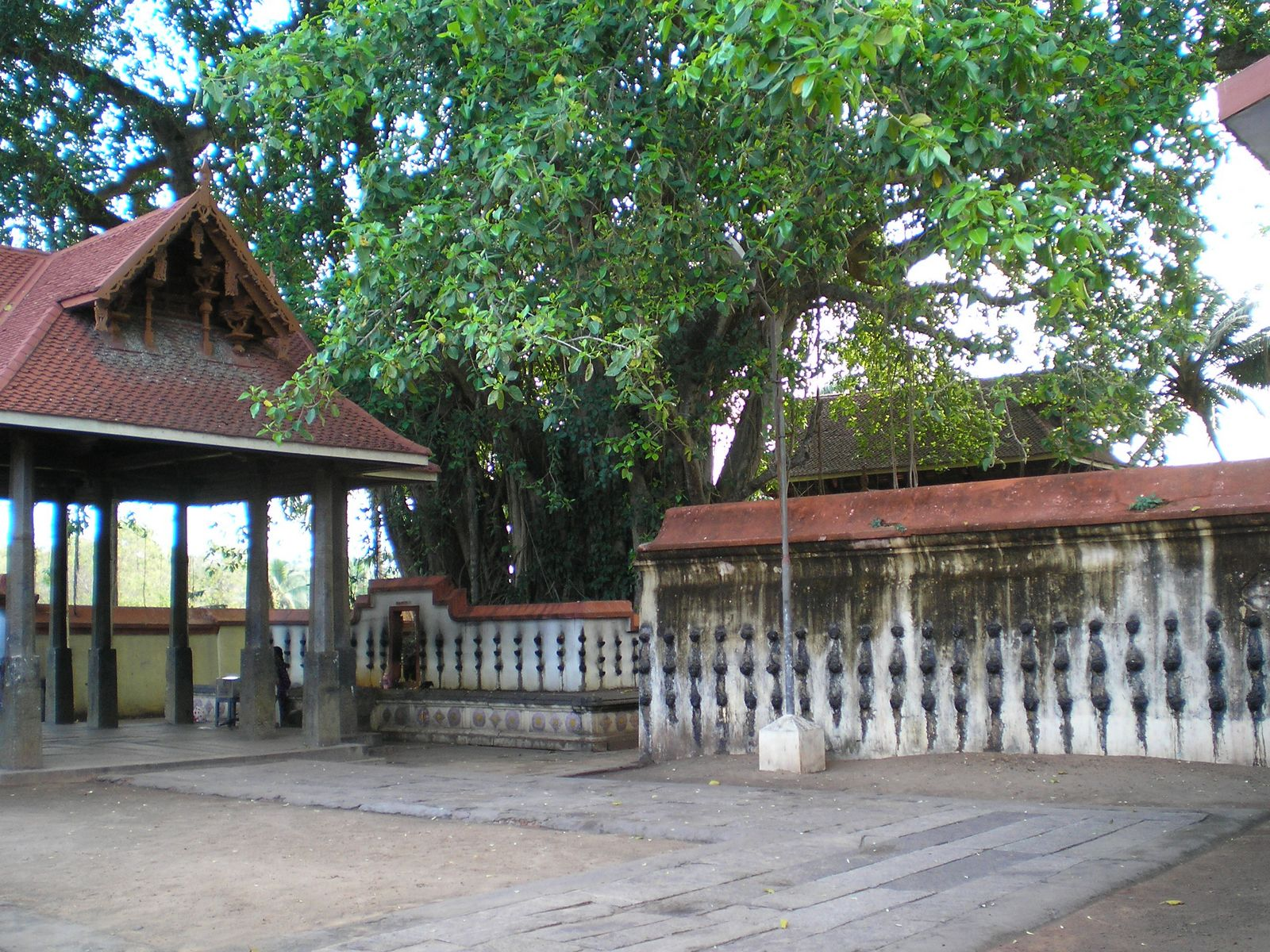 Part of Janardhana Swamy Temple Varkala